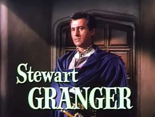 Cropped screenshot of Stewart Granger from the trailer for the film Young Bess